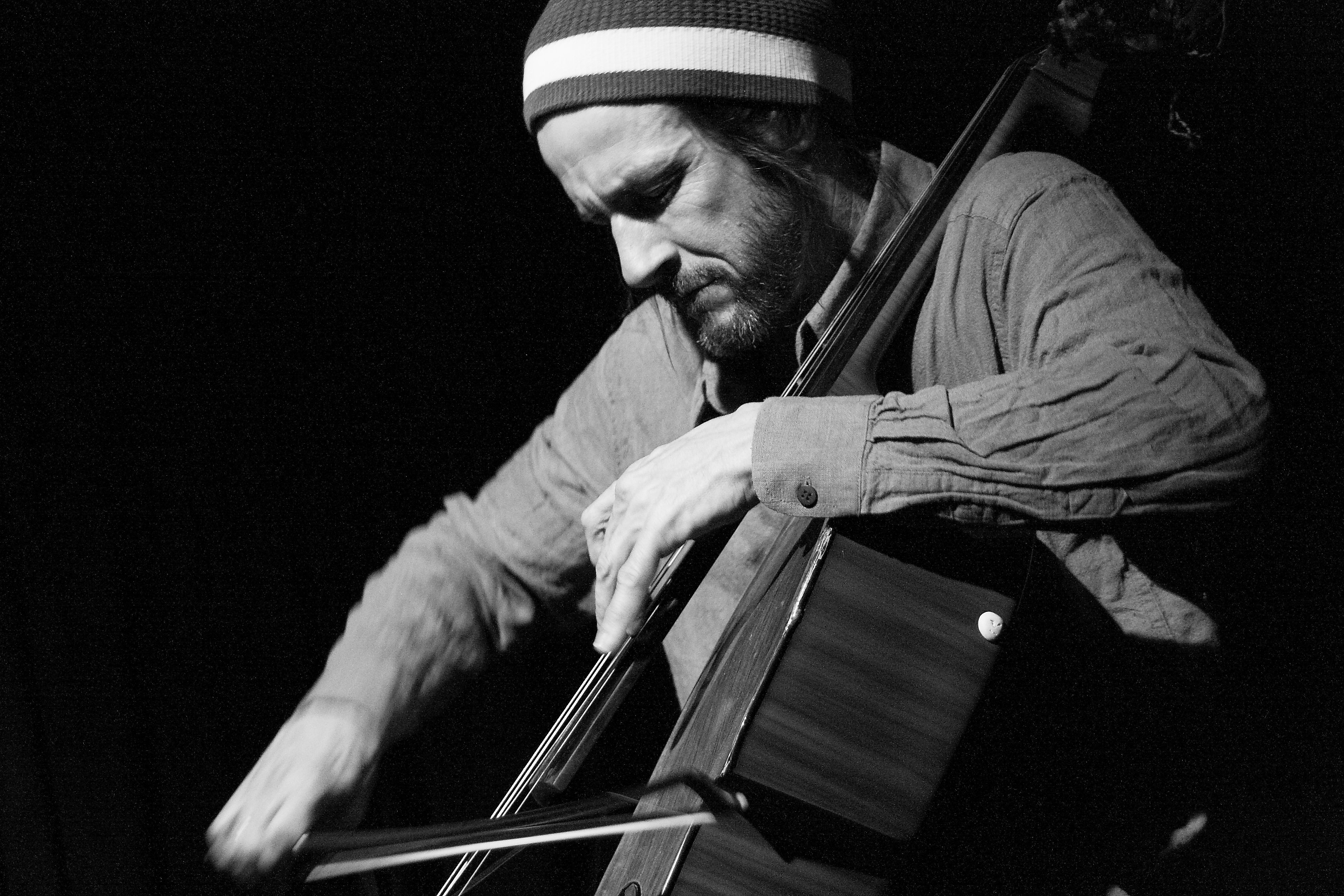 Fred Lonberg-Holm with Ballister at Club W71, Weikersheim.